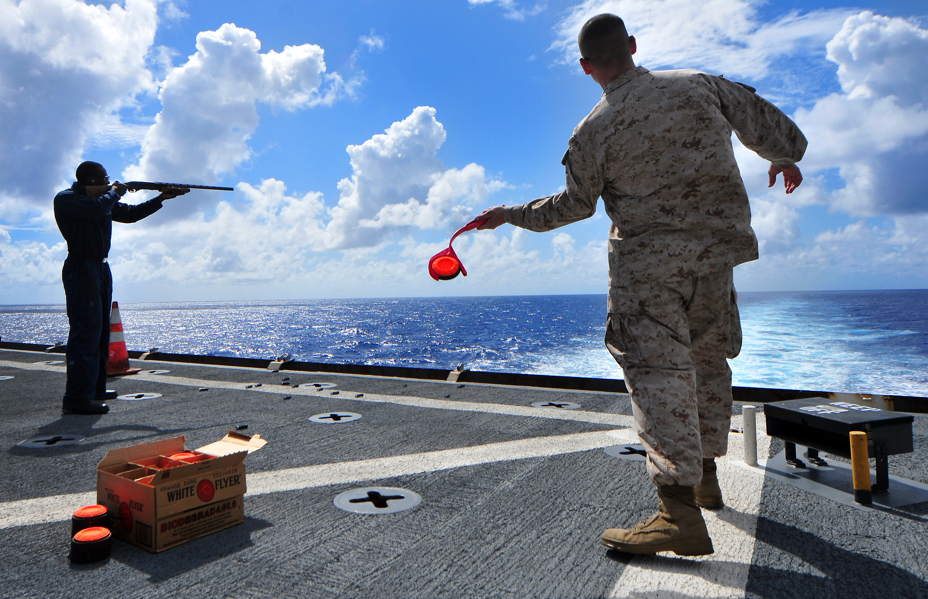 MARIANA STRAIT (Nov. 28, 2010) Boatswain's Mate Seaman Alonzo Bender, left, fires a 12-gauge shotgun during a morale, welfare and recreation skeet shoot on the flight deck of the amphibious dock landing ship USS Pearl Harbor (LSD 52). Pearl Harbor is part of the Peleliu Amphibious Ready Group, which is transiting the U.S. 7th Fleet area of responsibility. (U.S. Navy photo by Mass Communication Specialist 2nd Class Michael Russell/Released)